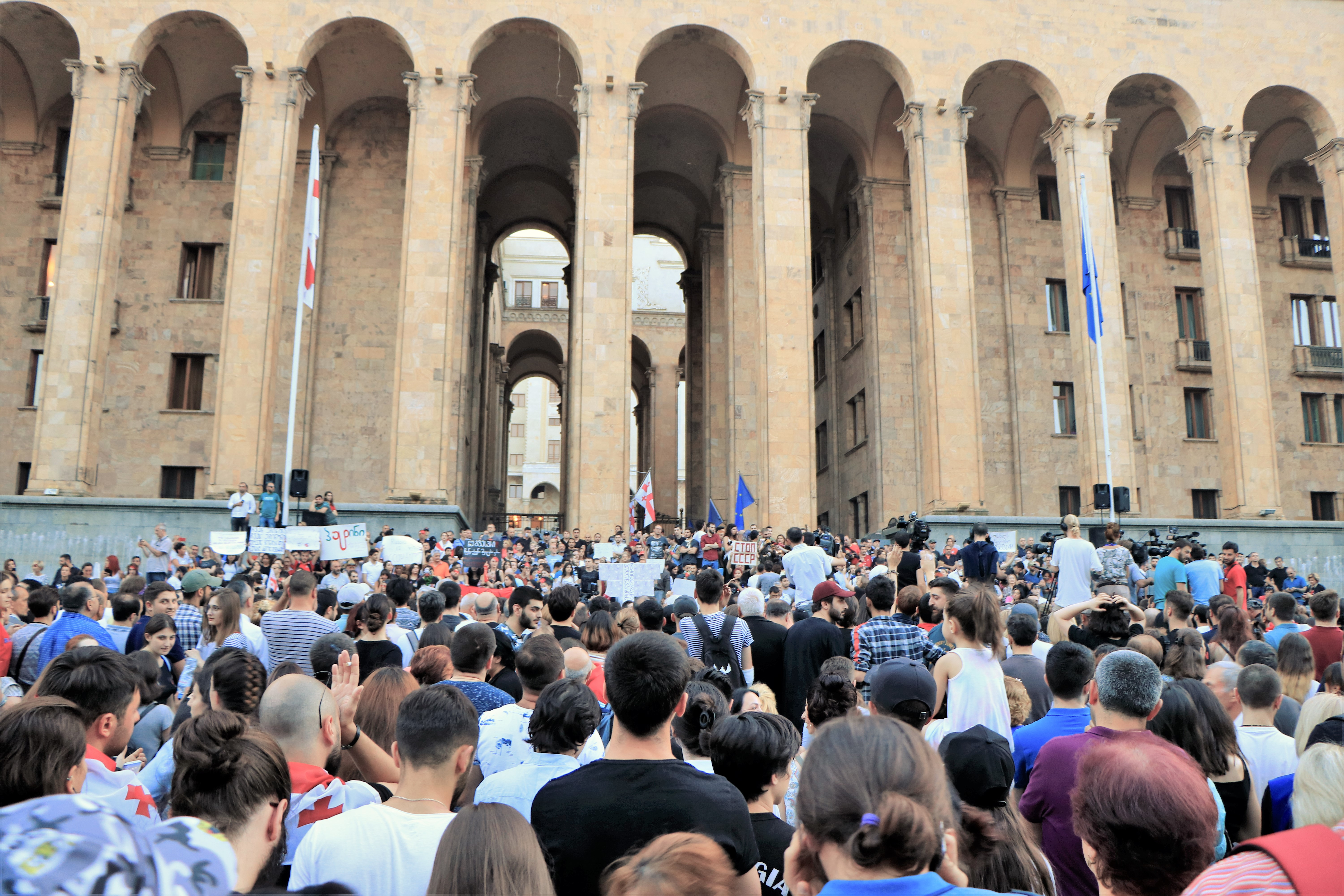 Gavrilov's Night Day 2 - Central part